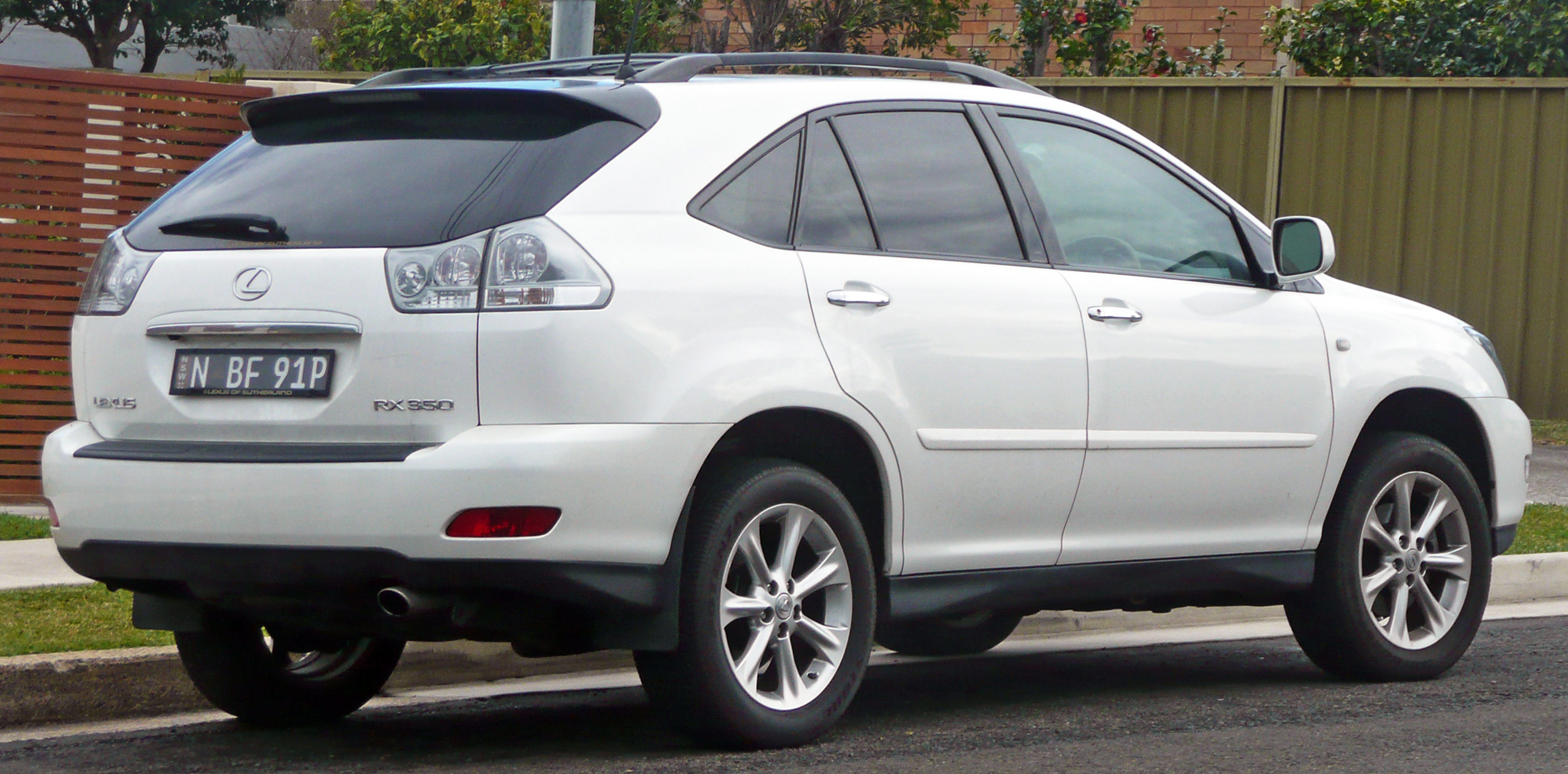 2007–2008 Lexus RX 350 (GSU35R) Sports Luxury wagon. Photographed in Cronulla, New South Wales, Australia.